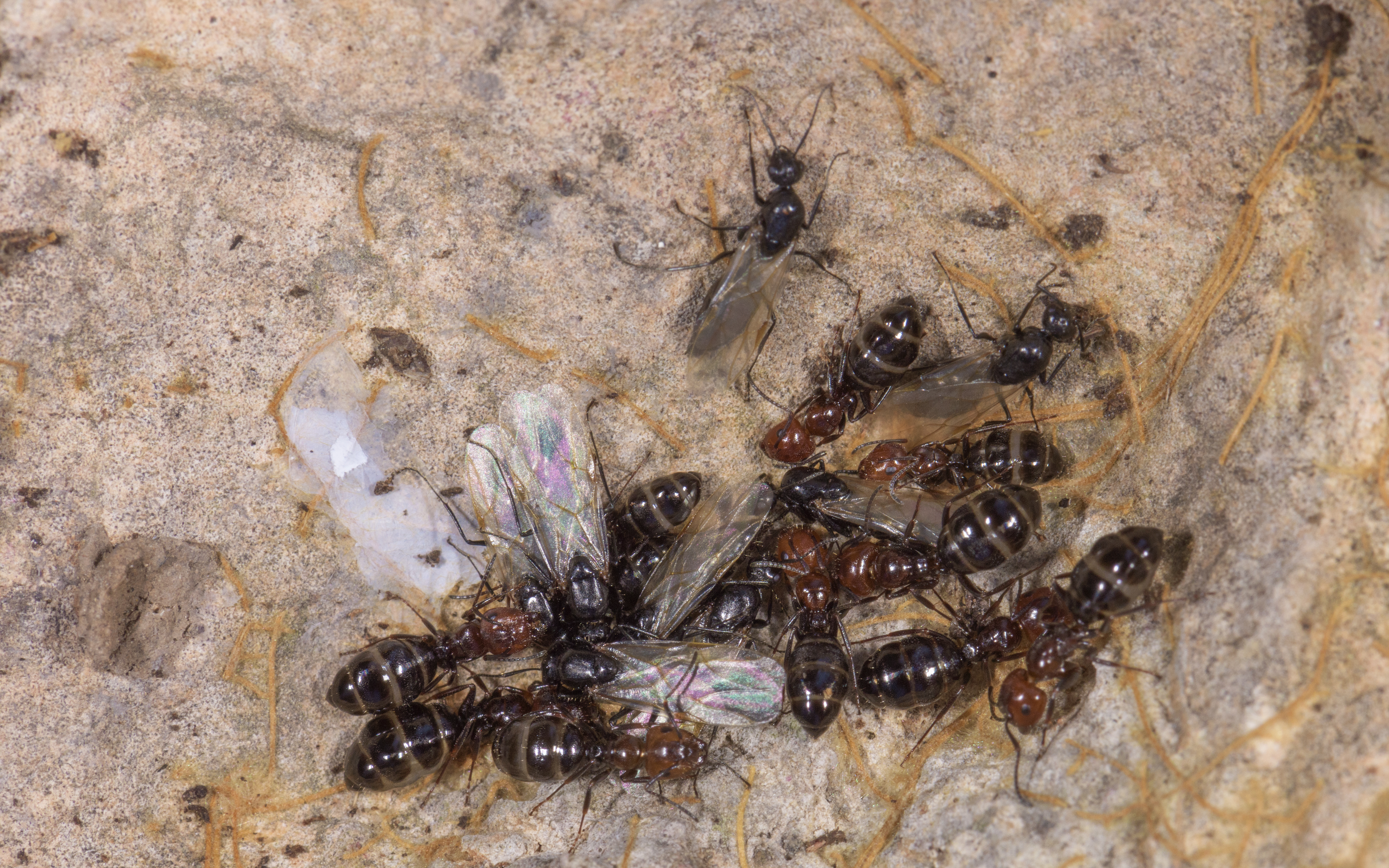 Camponotus lateralis. Forest of the Bois des Aresquiers. Vic-la-Gardiole, Hérault, France.